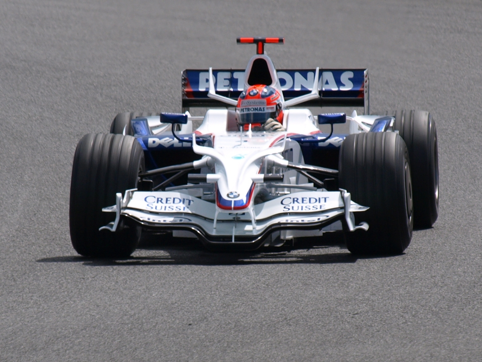 Robert Kubica testing for BMW Sauber at Silverstone Circuit in June 2008.